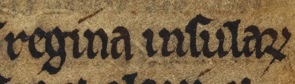 An excerpt from folio 42v of British Library MS Cotton Julius A VII (the Chronicle of Mann). The excerpt reads in Latin "regina Insularum" ("Queen of the Isles"). The excerpt concerns the wife of Rǫgnvaldr Guðrøðarson, King of the Isles (died 1229).